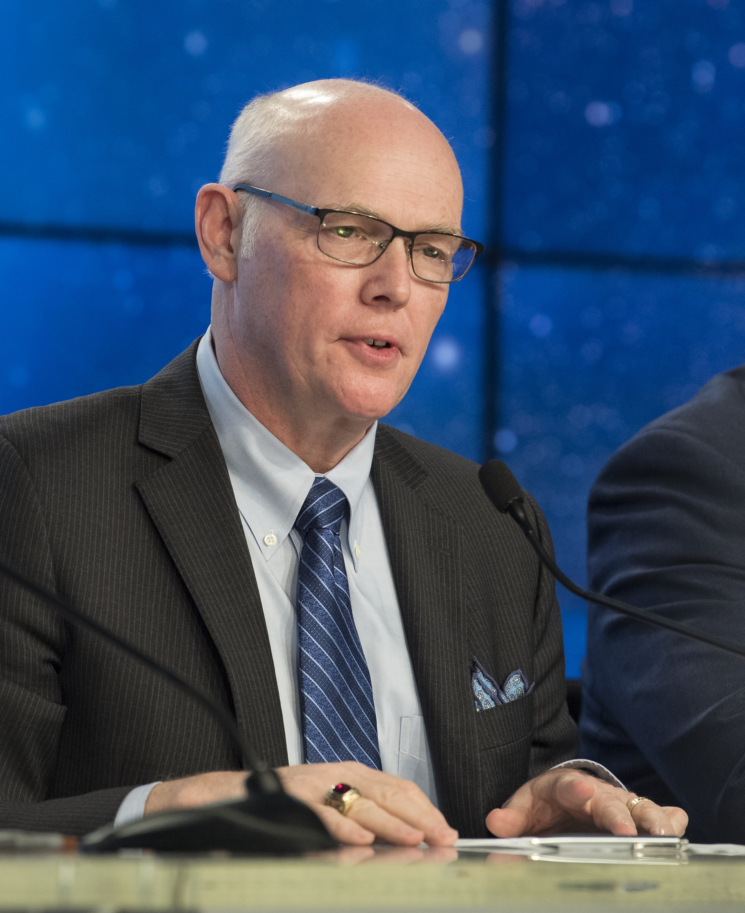 Tory Bruno, president and CEO of United Launch Alliance is seen during a press conference at NASA's Kennedy Space Center following the launch of Boeing’s Starliner spacecraft onboard a United Launch Alliance Atlas V rocket, Friday, Dec. 20, 2019, at Cape Canaveral Air Force Station in Florida. After a successful launch at 6:36 a.m. EST, Boeing’s CST-100 Starliner is in an unplanned, but stable orbit. The team is assessing what test objectives can be achieved before the spacecraft’s return to land in White Sands, New Mexico. Photo Credit: (NASA/Joel Kowsky)